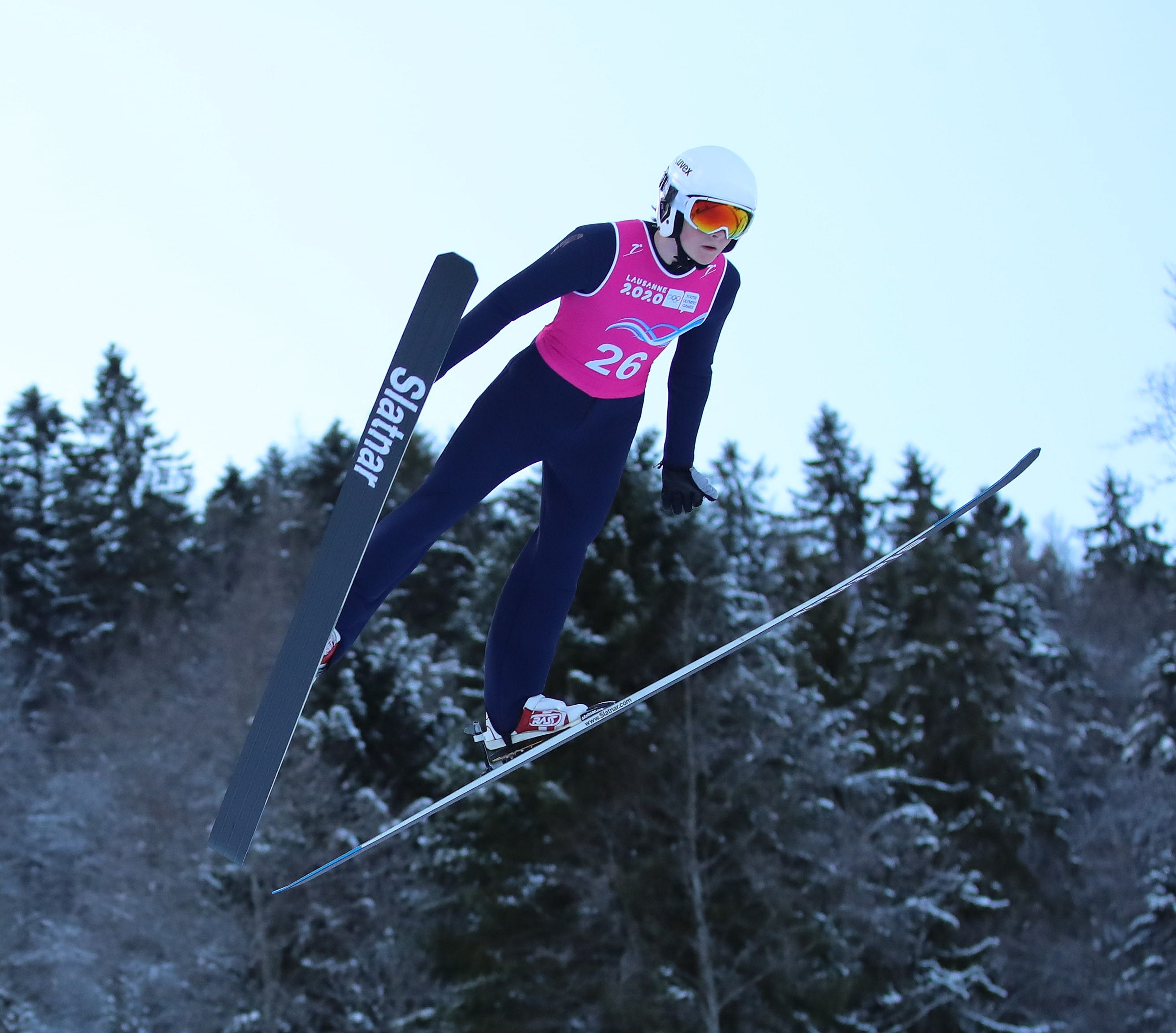 1st Round of Ski jumping – Men's Individual at the 2020 Winter Youth Olympics in Lausanne on 19 January 2020.